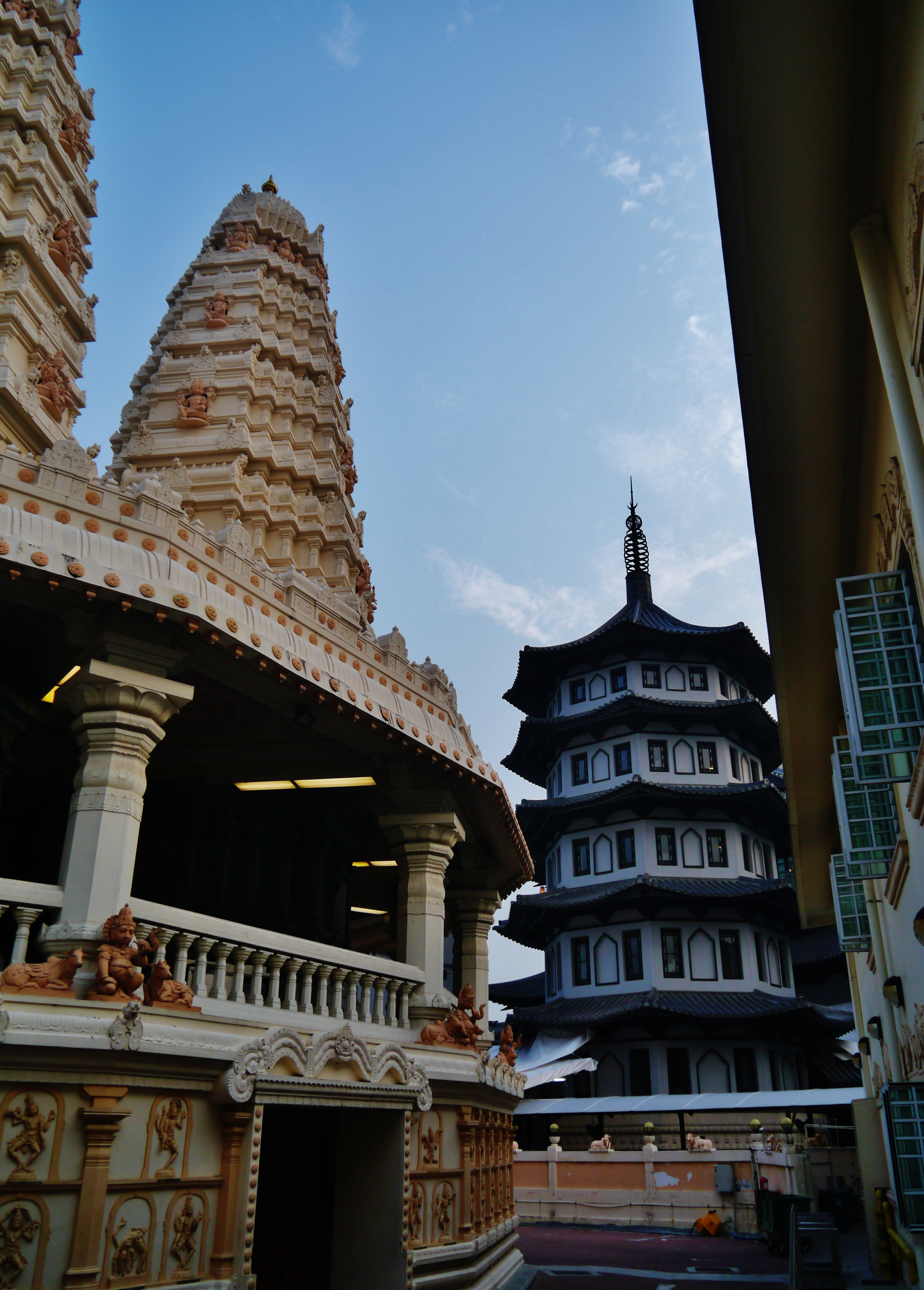 Sri Sivan Temple, Singapore